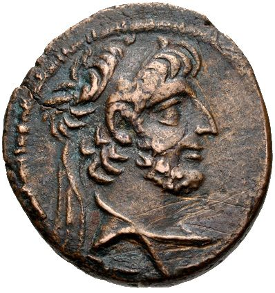 SELEUKID KINGS of SYRIA. Antiochos XII Dionysos. 87/6-83/2 BC. Æ (21mm, 8.17 g, 12h). Damaskos mint. Diademed and draped bust right / Zeus Aëtophoros standing left; monogram in exergue. SC 2481; HGC 9, 1329. VF, brown patina, scratches.